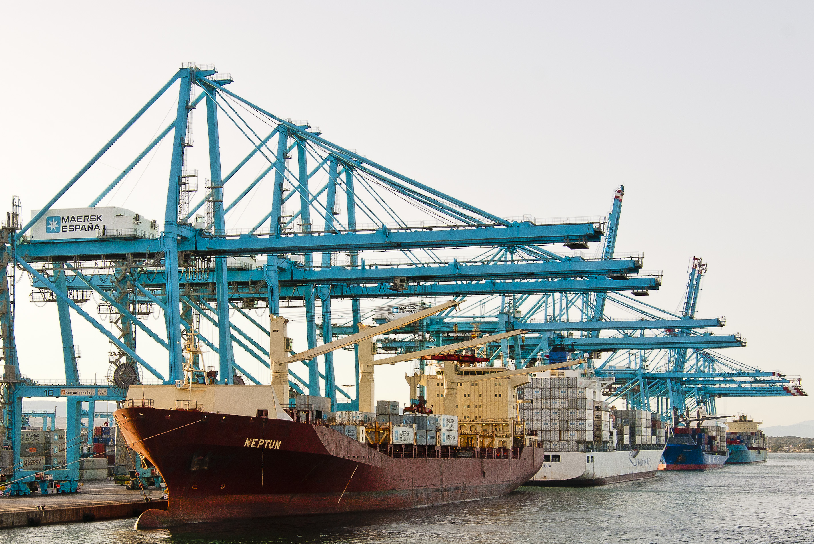 Dock Juan Carlos I managed by Maersk at the Algeciras port, Spain.